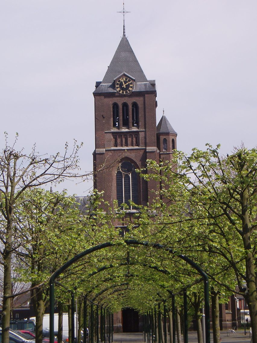 Reusel (Netherlands), church tower and bride's lane